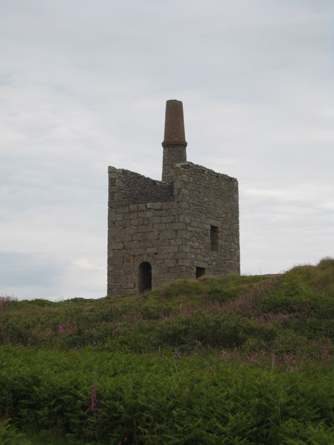 Greenburrow pumping engine house at Ding Dong Mine Ding Dong is one of the oldest mining sites in Cornwall. More information here